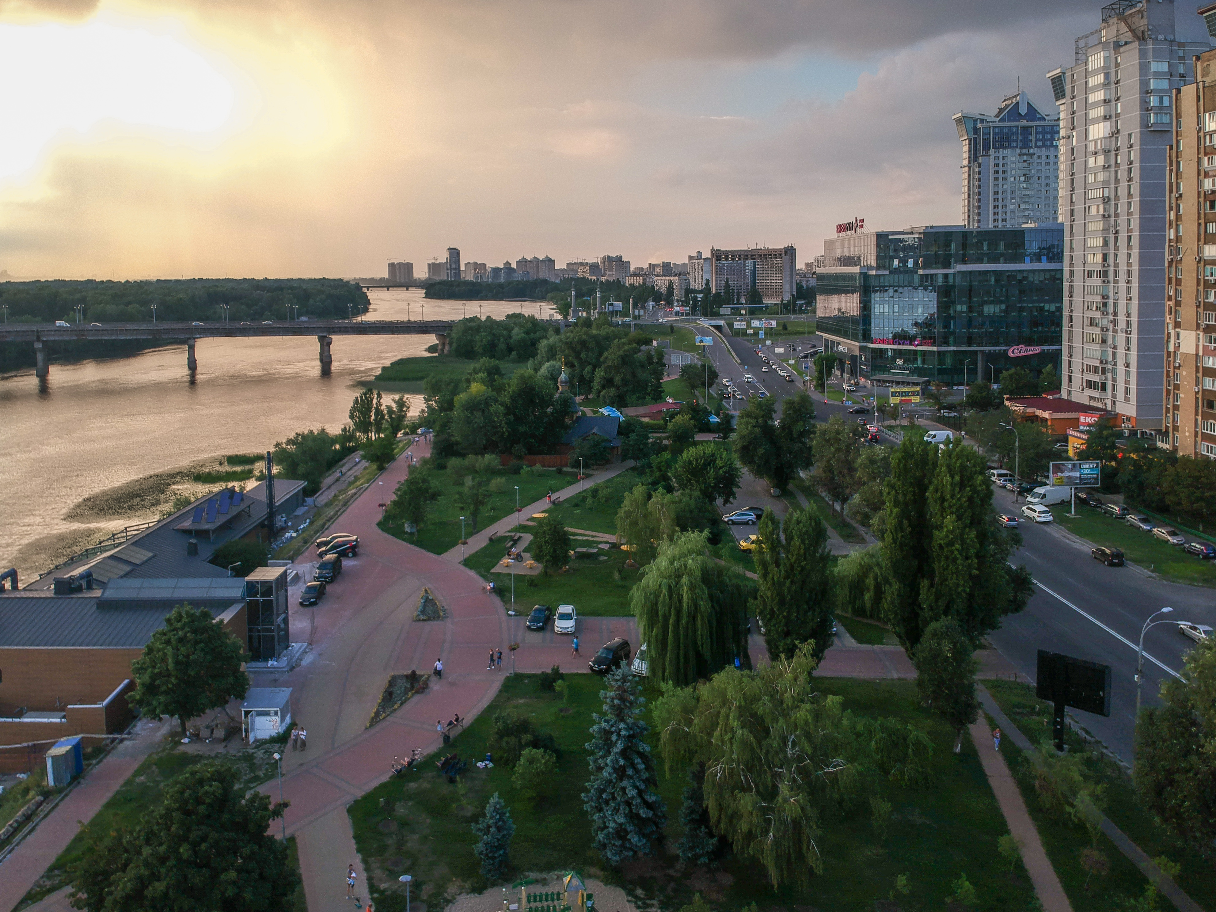 Dniprovska Embankment, Berezniaky, Kyiv